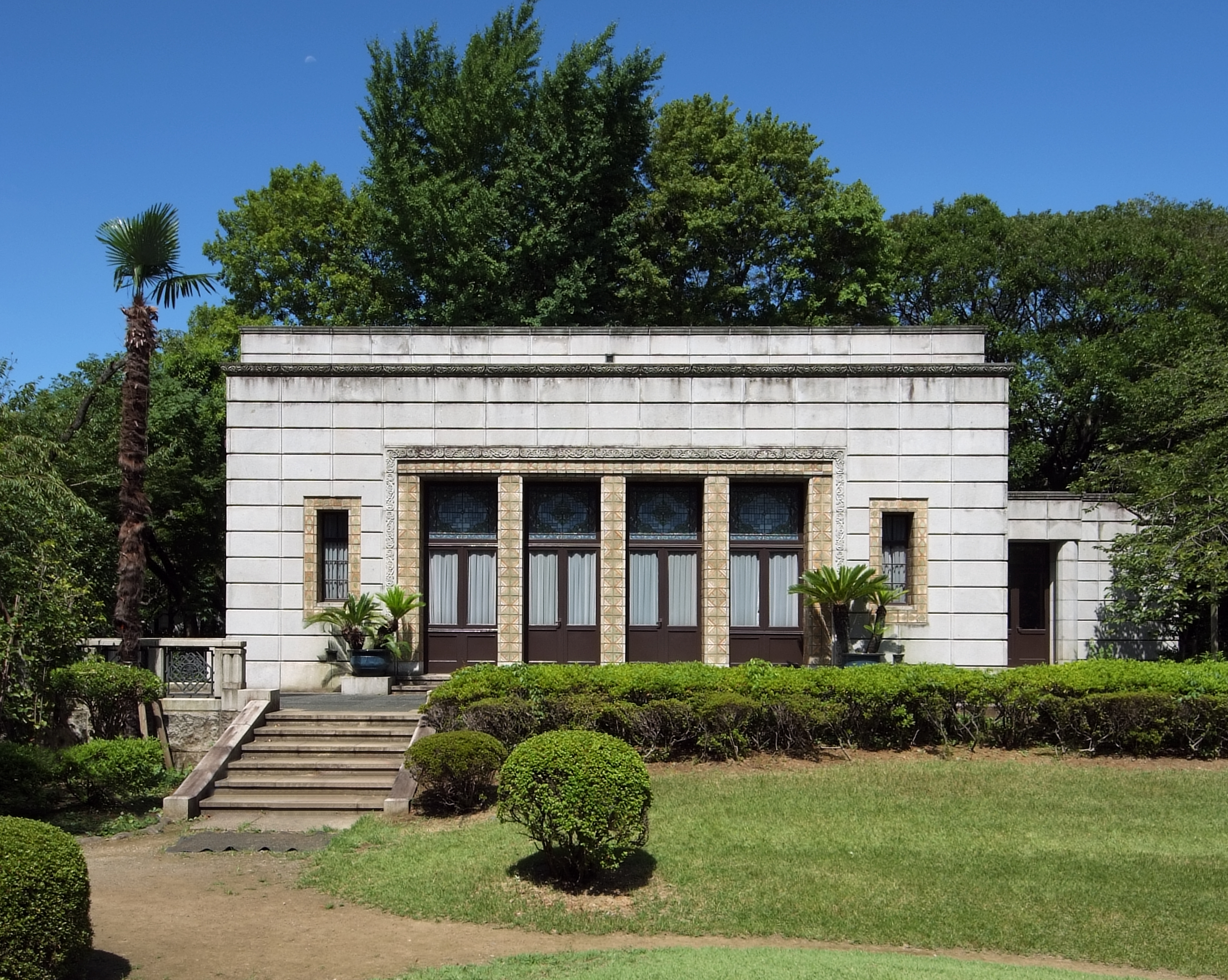 Seien Bunko Library, Asukayama Park Kita-ku Tokyo Japan, designed by Junkichi Tanabe in 1925. Important Cultural Property of Japan in Tokyo.